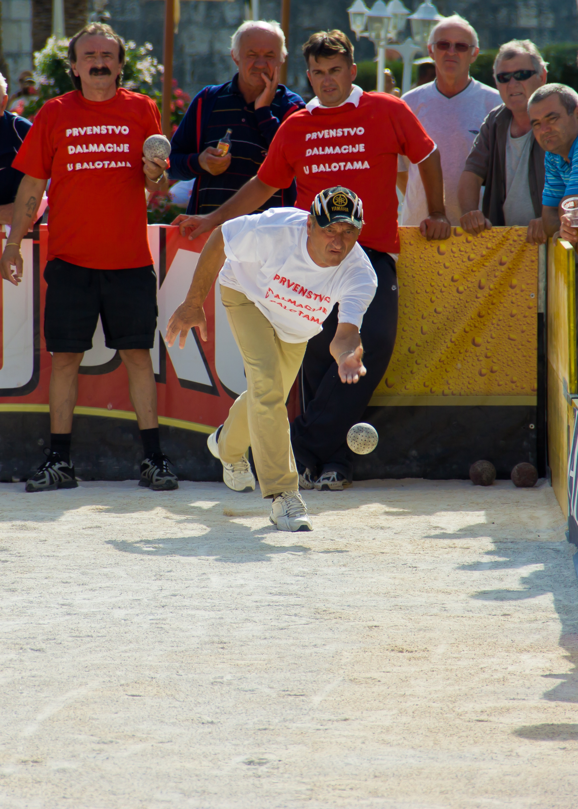 A tense moment. Bocce in Trogir, Croatia.